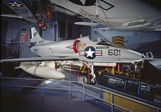 Photo of Douglas A4D 2N A 4C Skyhawk.jpg